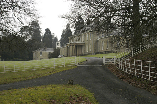 Driveway into Dallam Tower